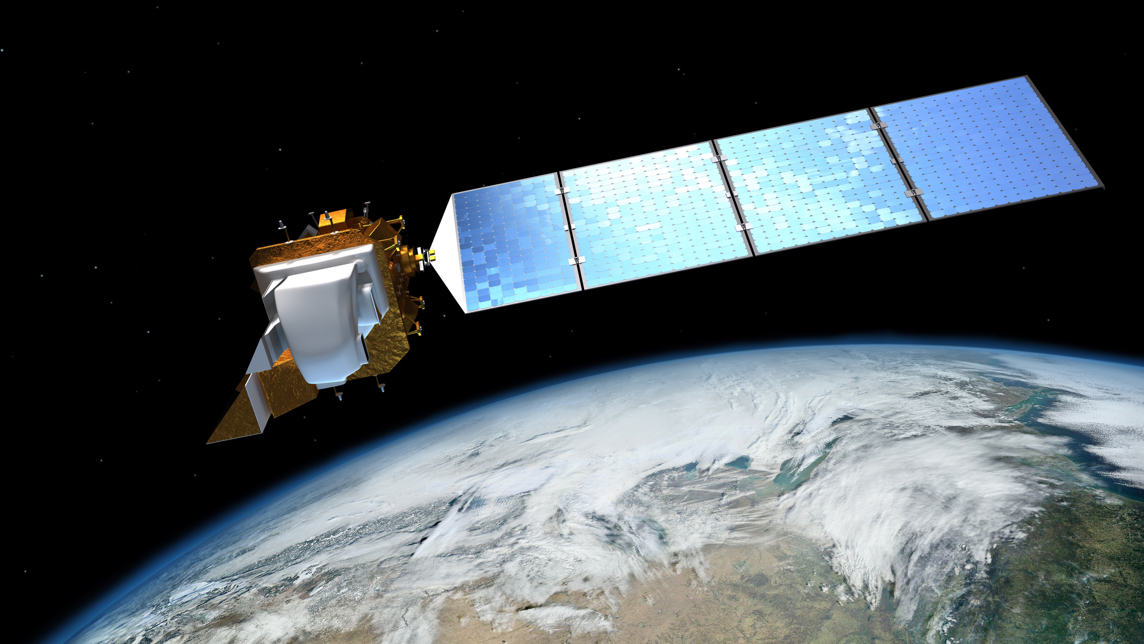 Artist's image of the Landsat Data Continuity Mission (LDCM), the eigth Landsat satellite to be launched.